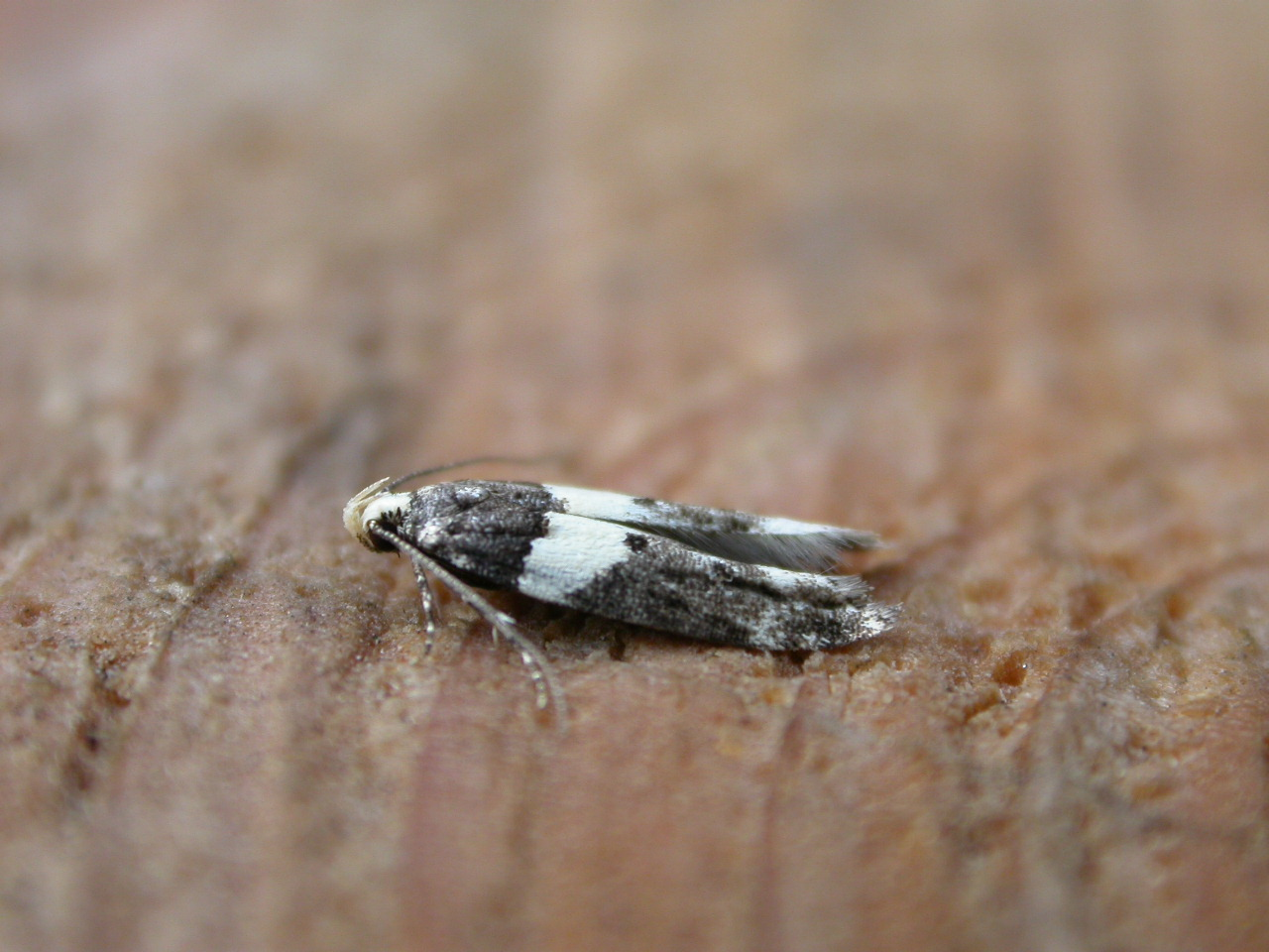 Recurvaria leucatella, to MV light, Hellerup, Denmark, 24 July 2003